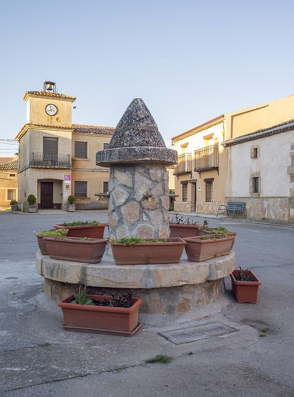 Ayuntamiento